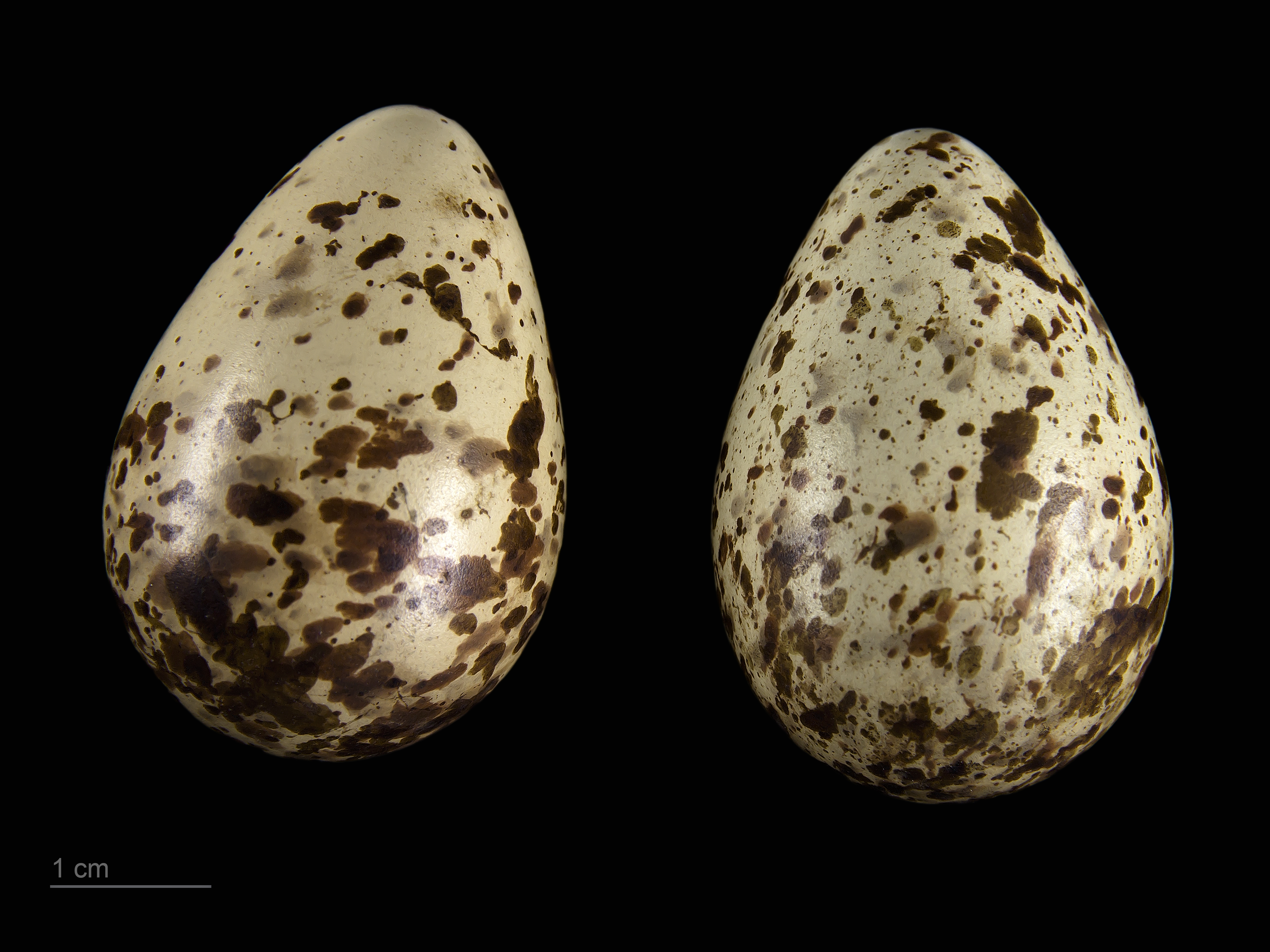 Eggs of dunlin Two specimens of the same spawn ; collection of Jacques Perrin de Brichambaut.